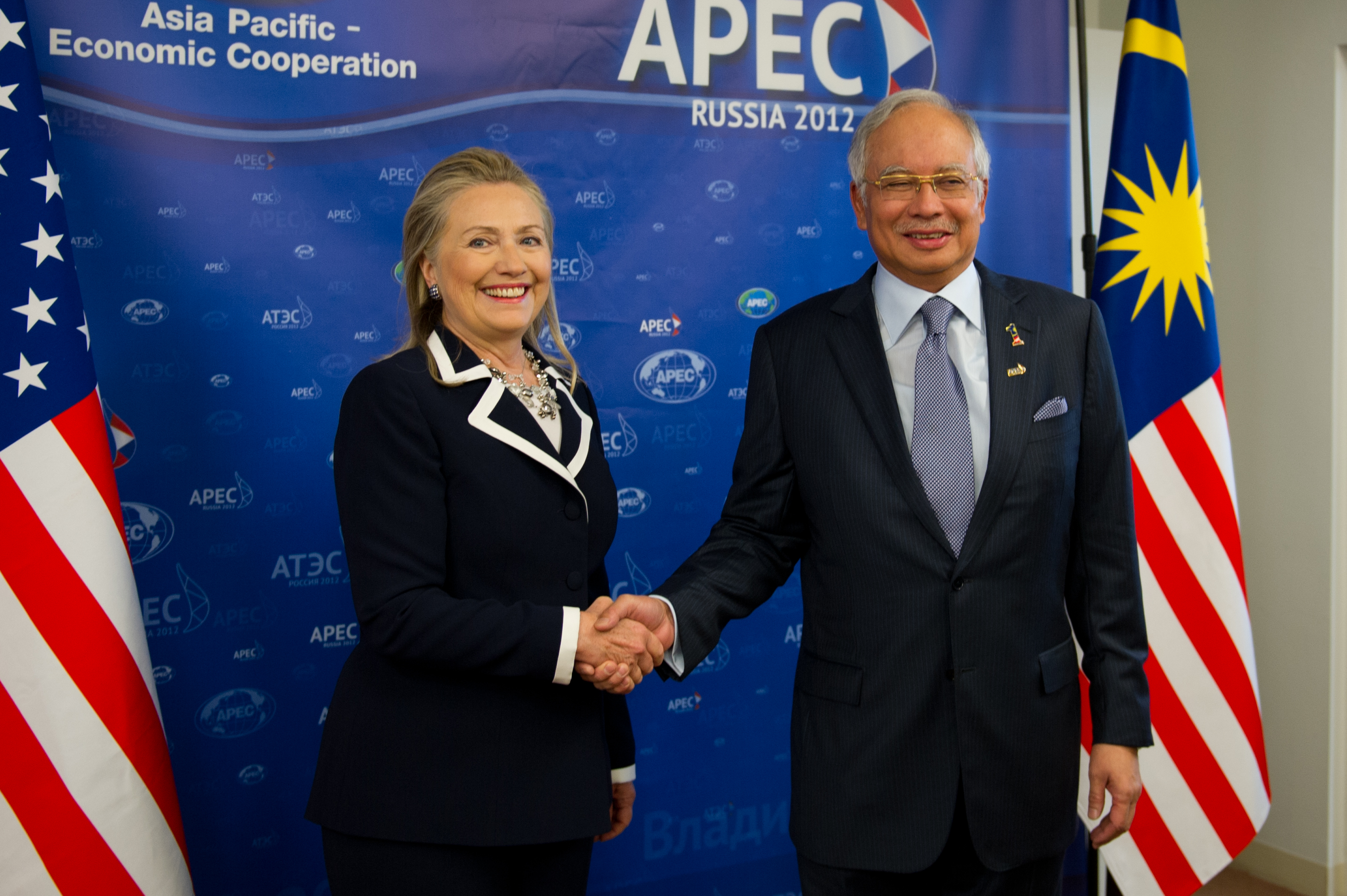 VLADIVOSTOK, Russia (September 9, 2012) U.S. Secretary of State Hillary Rodham Clinton greets Malaysian Prime Minister Najib Razak before their meeting during the Asia-Pacific Economic Cooperation (APEC) Leaders' Week [State Department photo by William Ng/Public Domain]